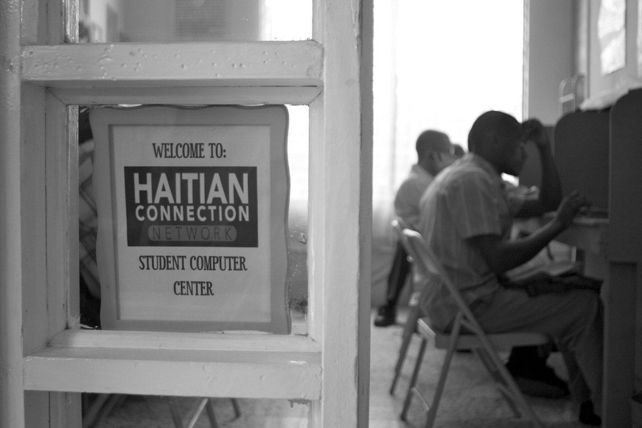 University of the People (UoPeople) and Haitian Connection Network (HCN) work together to provide education for Haitians.